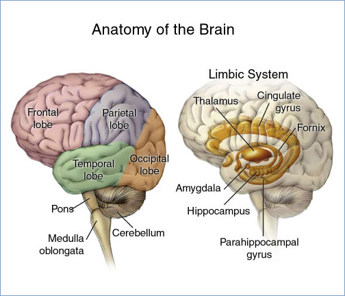 picture insert